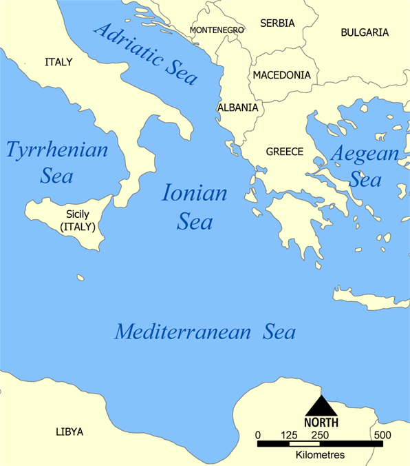 A map showing the location of the Ionian Sea.